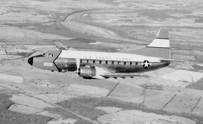 A U.S. Coast Guard Martin 4-0-4 in flight (s/n 1283). Two aircraft were acquired in 1952 and designated RM-1 (USCG serials 1282/1283). They were later upgraded to RM-1Z VIP transports (re-designated VC-3A in 1962). Both were stationed at the Washington National Airport and used by the Commandant of the USCG and the Secretary of Treasury/Transportation. Both were turned over to the U.S. Navy in 1969 (BuNos 158202/158203) and used until 1971. Later, they were sold to civil operators. 1282 crashed in Venezela in 1978, 1283 was written off in 1974.